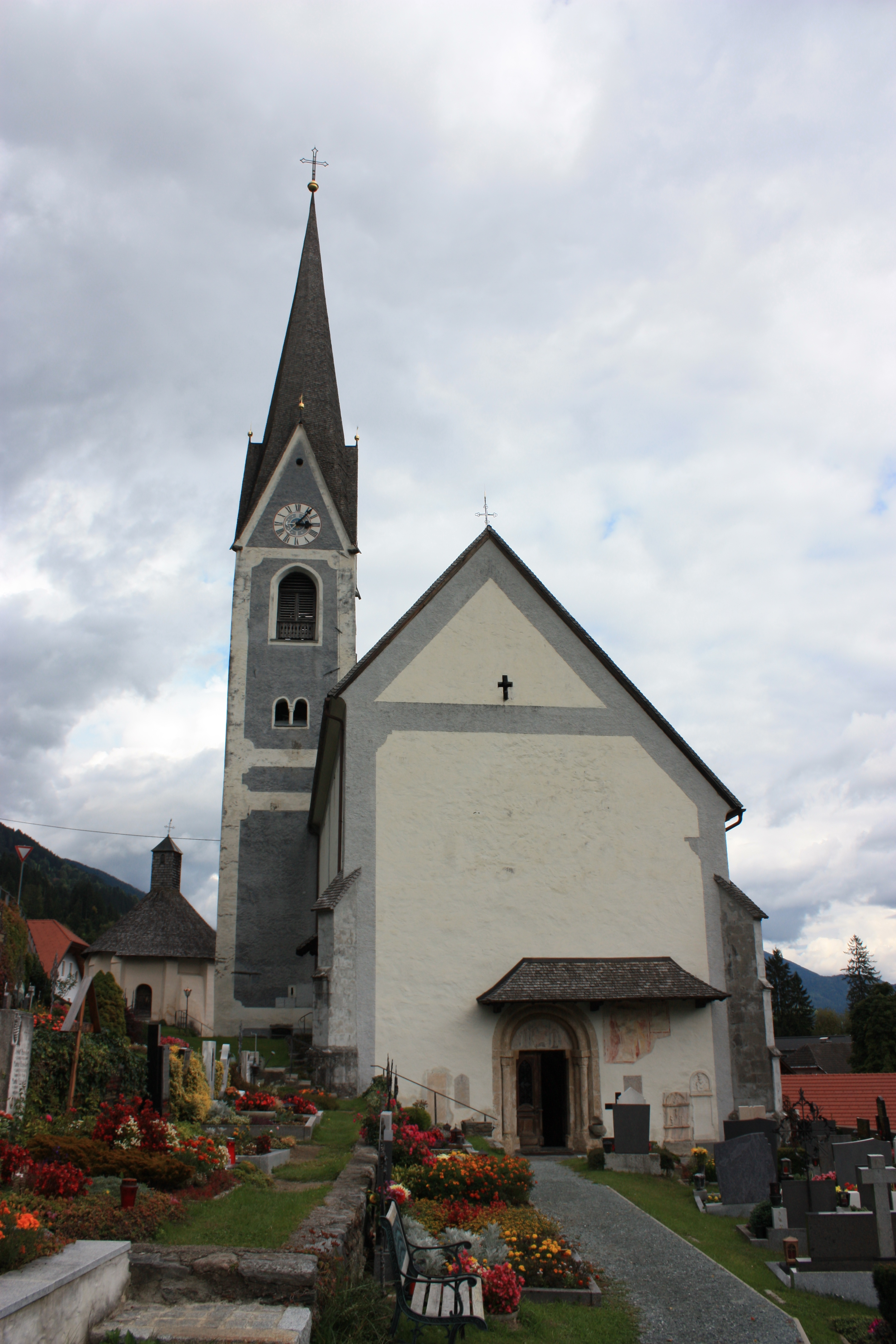 Parish church Locality: Berg im Drautal Community:Berg im Drautal